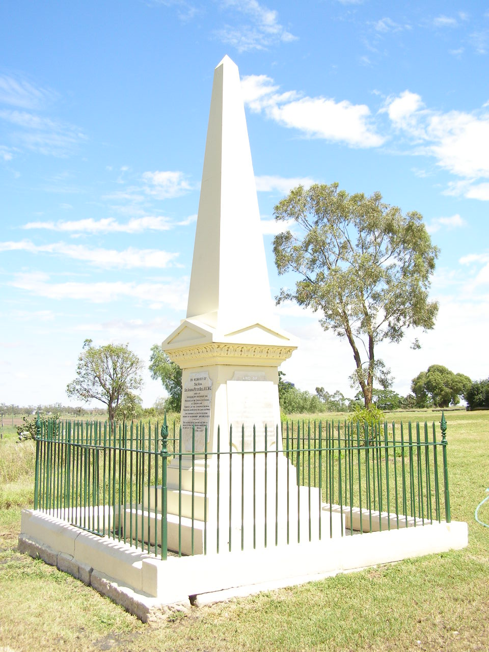 Joshua Peter Bell monument, at Jimbour House, 2007